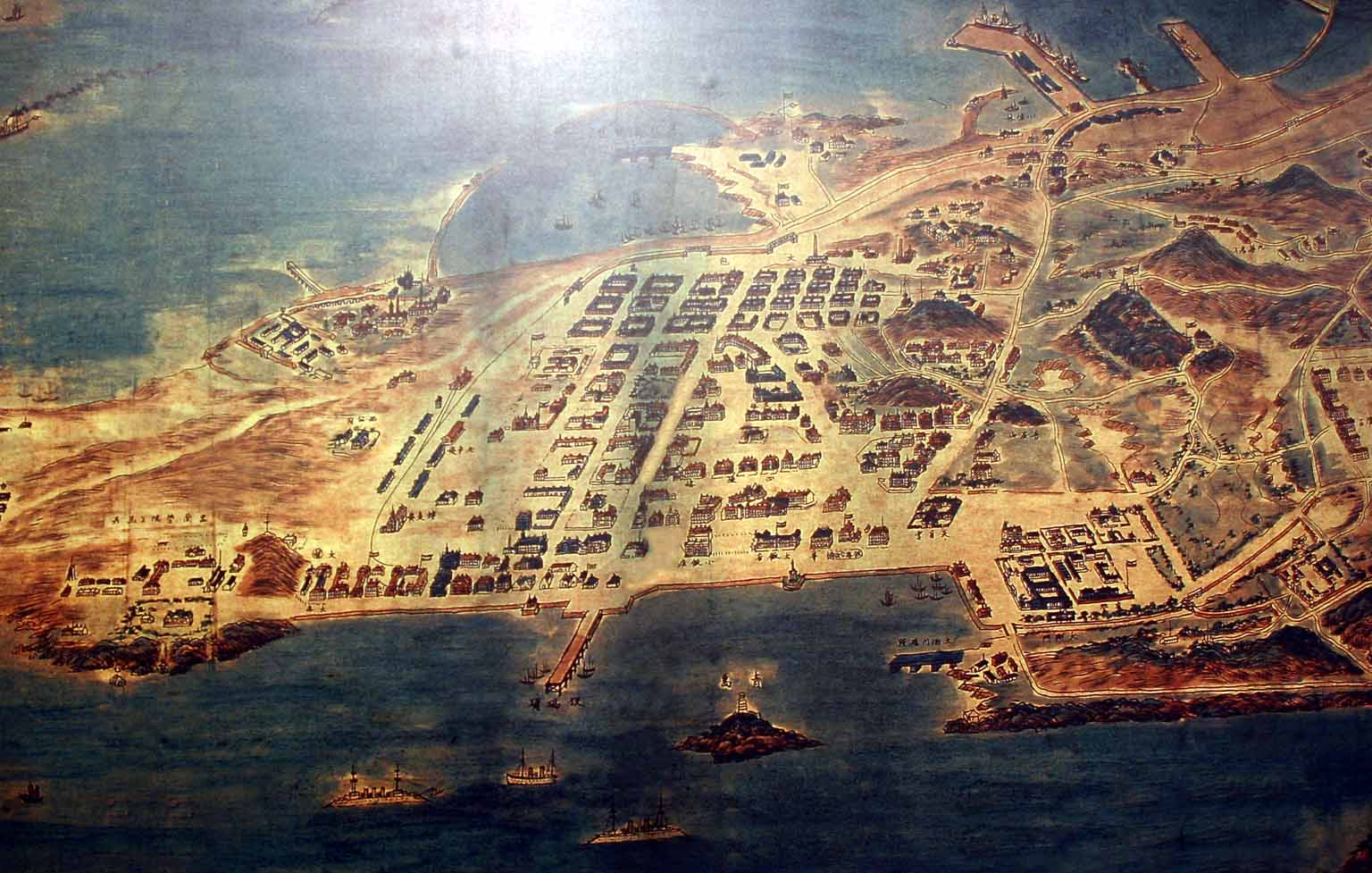 Map of Qingdao circa 1906, The map is labelled in Chinese. Jiaozhou Governor's Hall can be seen on the southern coast. It's the building with the flag directly north of Little Qingdao Island. Little Qingdao Island is visible near the pier at the bottom of the map. Qingdao Brewery (now Qingdao Beer Museum) is off the map to the right near the top. Zhan Qiao (the pier) can be seen prior to its later extension.